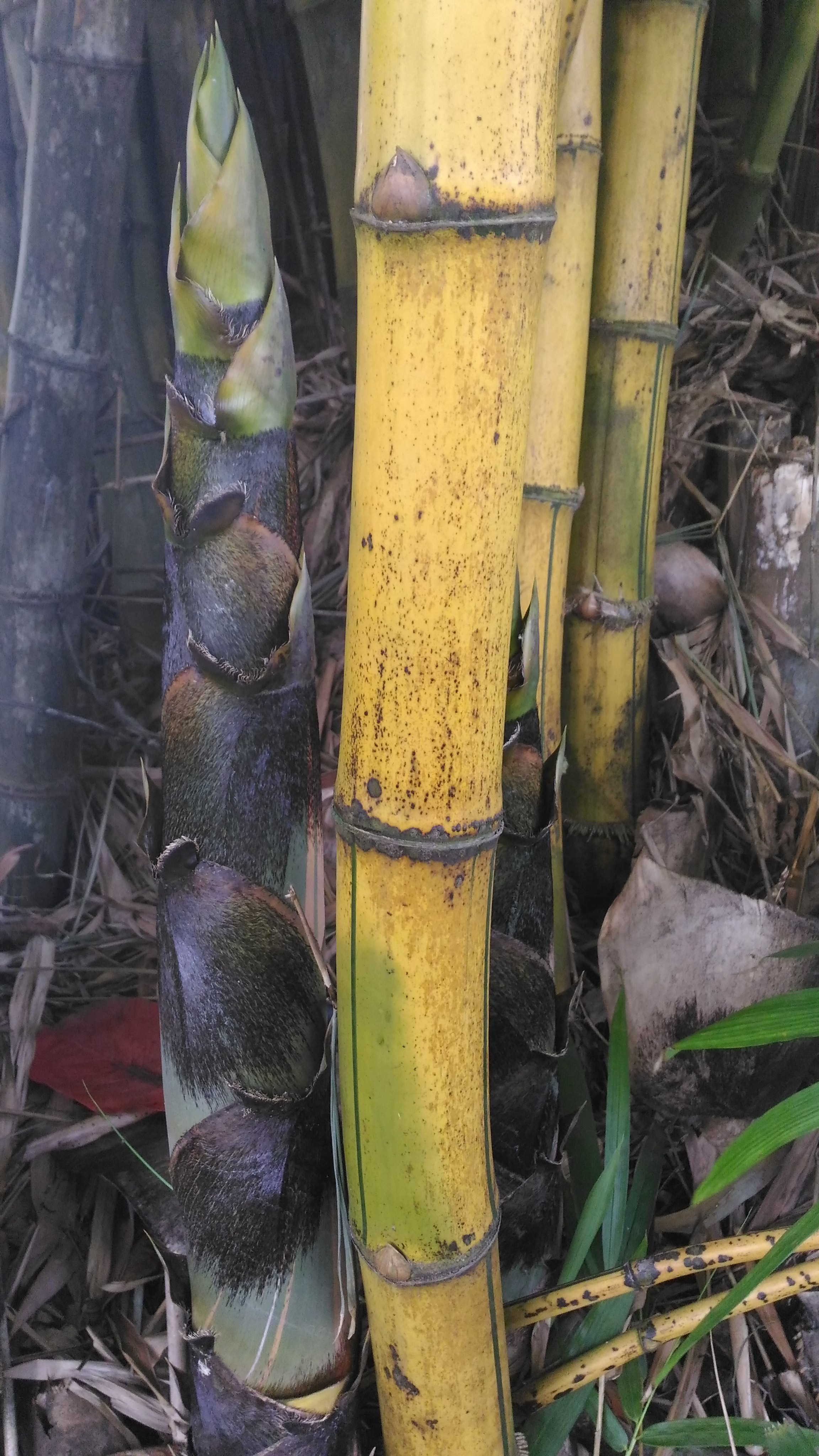 Seedling of Bamboo